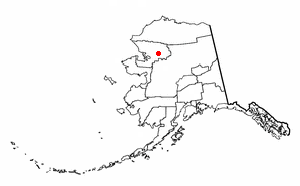 Adapted from Wikipedia's AK borough maps by Seth Ilys.